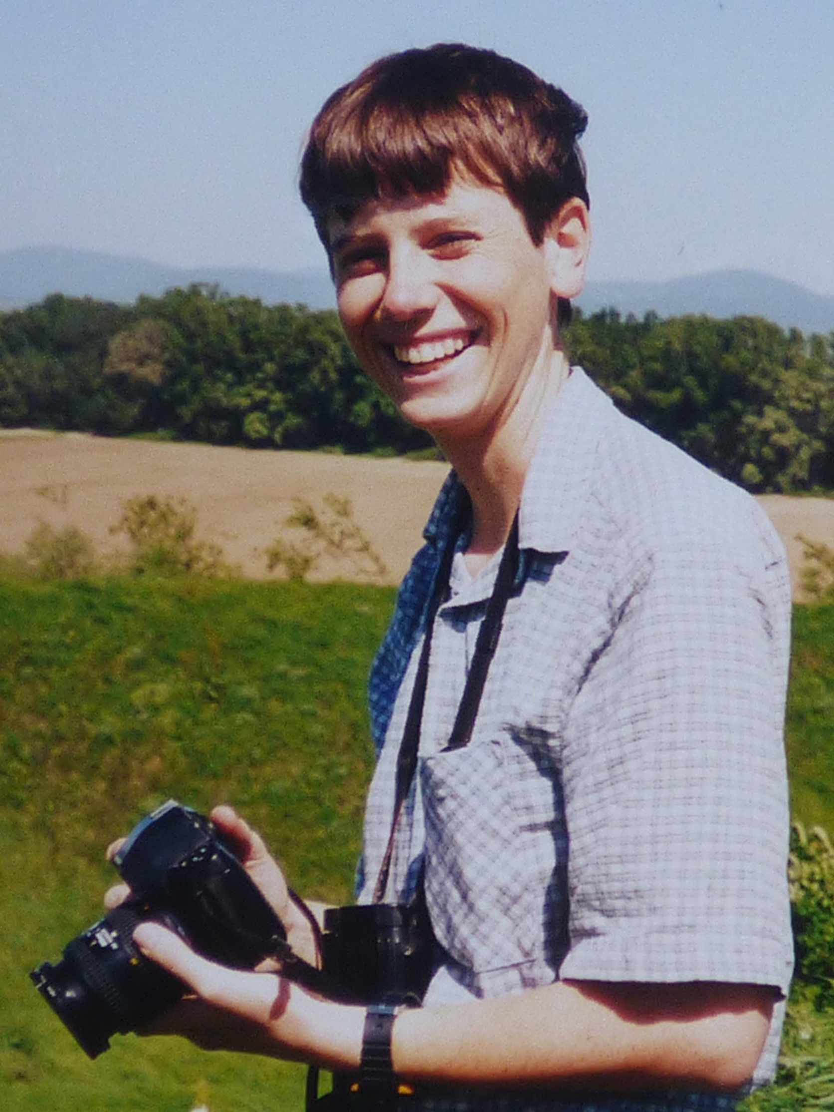 Claire Spottiswoode South African ornitologist as a guest researcher in Szabolcs, Hungary